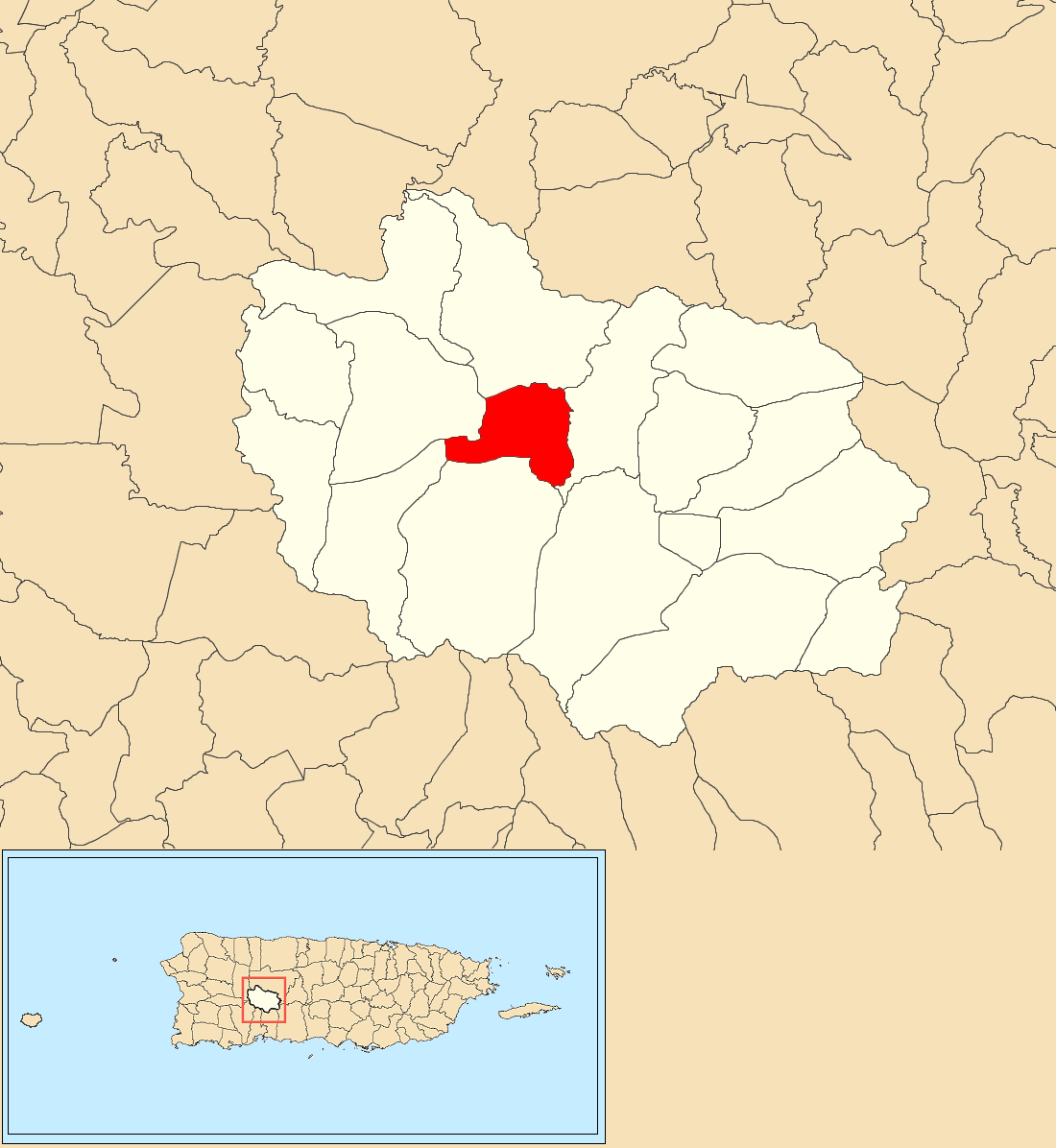 Yayales, Adjuntas, Puerto Rico locator map